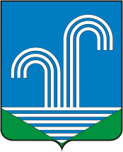 Bratkovskoe (Krasnodar krai), coat of arms